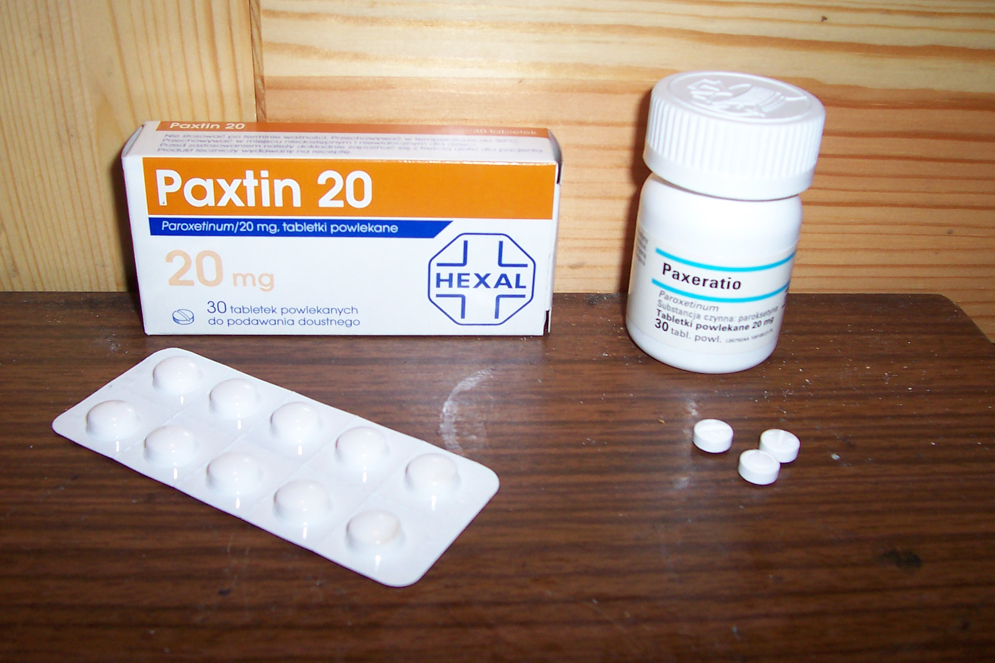 Paxtin and Paxeratio pills